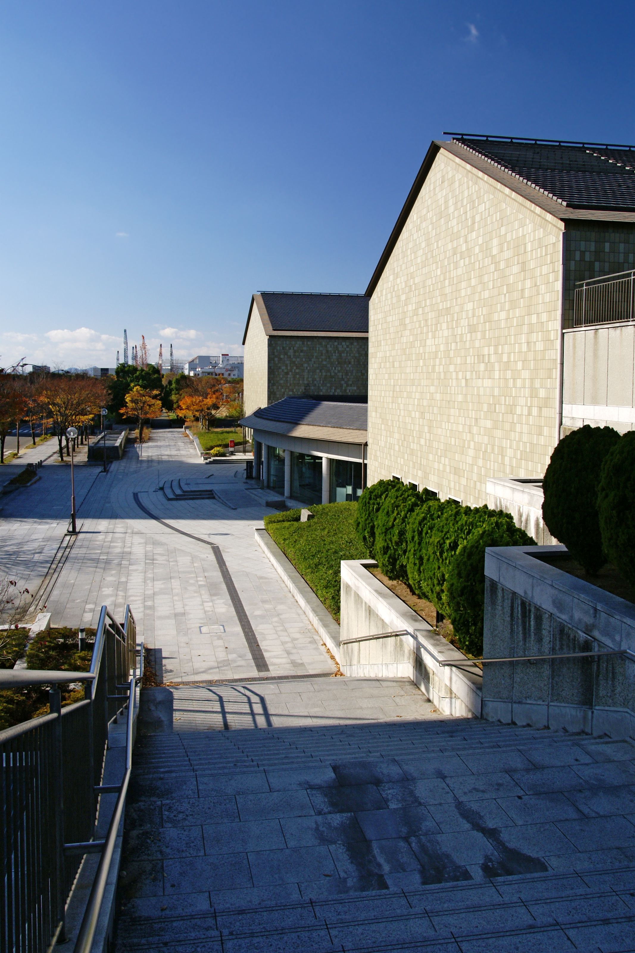 Kobe City Koiso Memorial Museum of Art in Rokko Island, Kobe, Hyogo prefecture, Japan